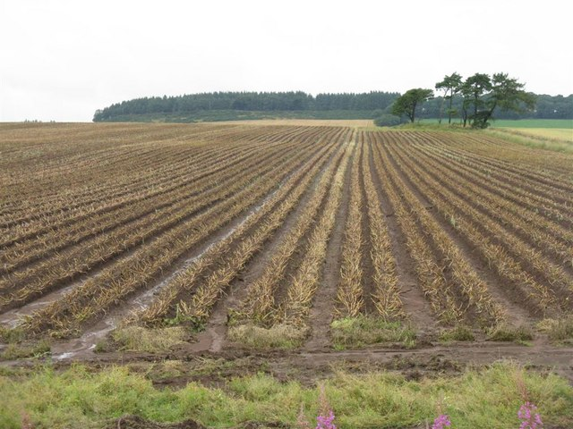 Potatoes at Bannaty The haulms [tops] have been removed physically, rather than by the more usual chemical methods, to prevent potato blight affecting the tubers.